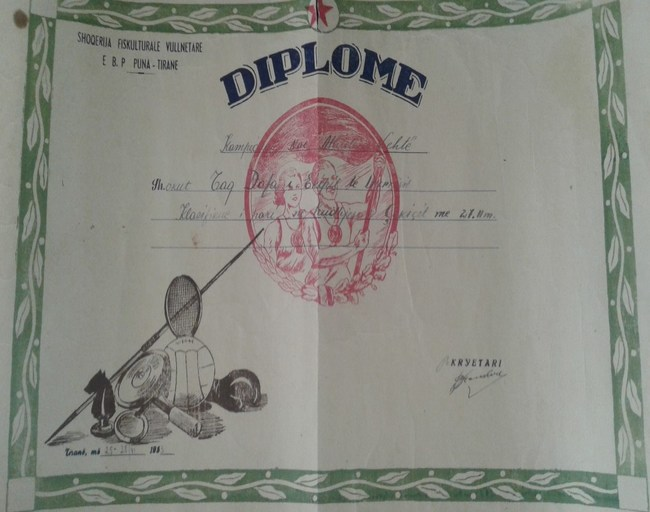 Hedhje cekici .